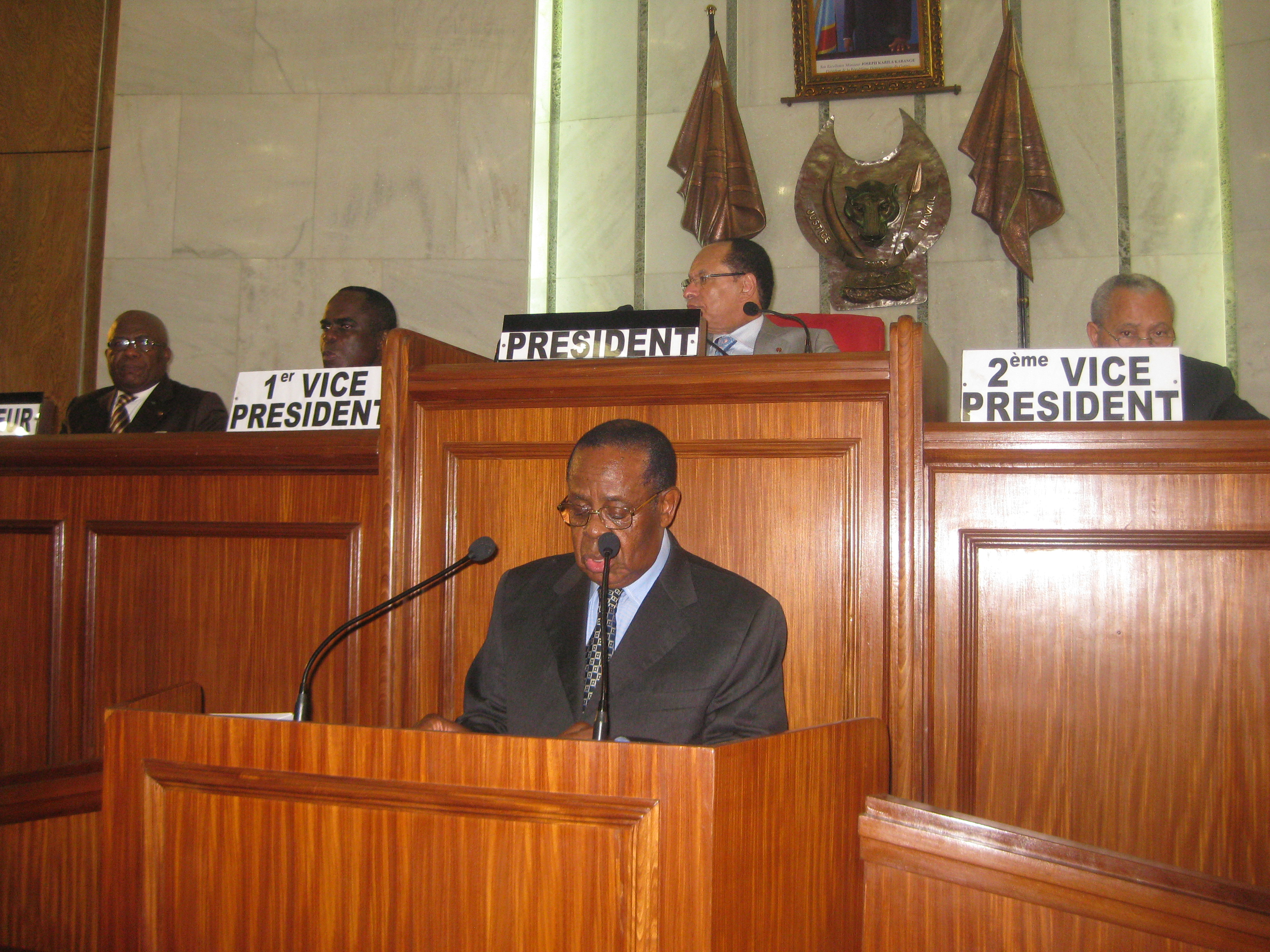 Charles Mwando Nsimba addressing the Senate of the Democratic Republic of the Congo with Léon Kengo presiding. Mario-Philippe Losembe is on the far right. Edouard Mokolo wa Pombo is just to the left of Kengo.